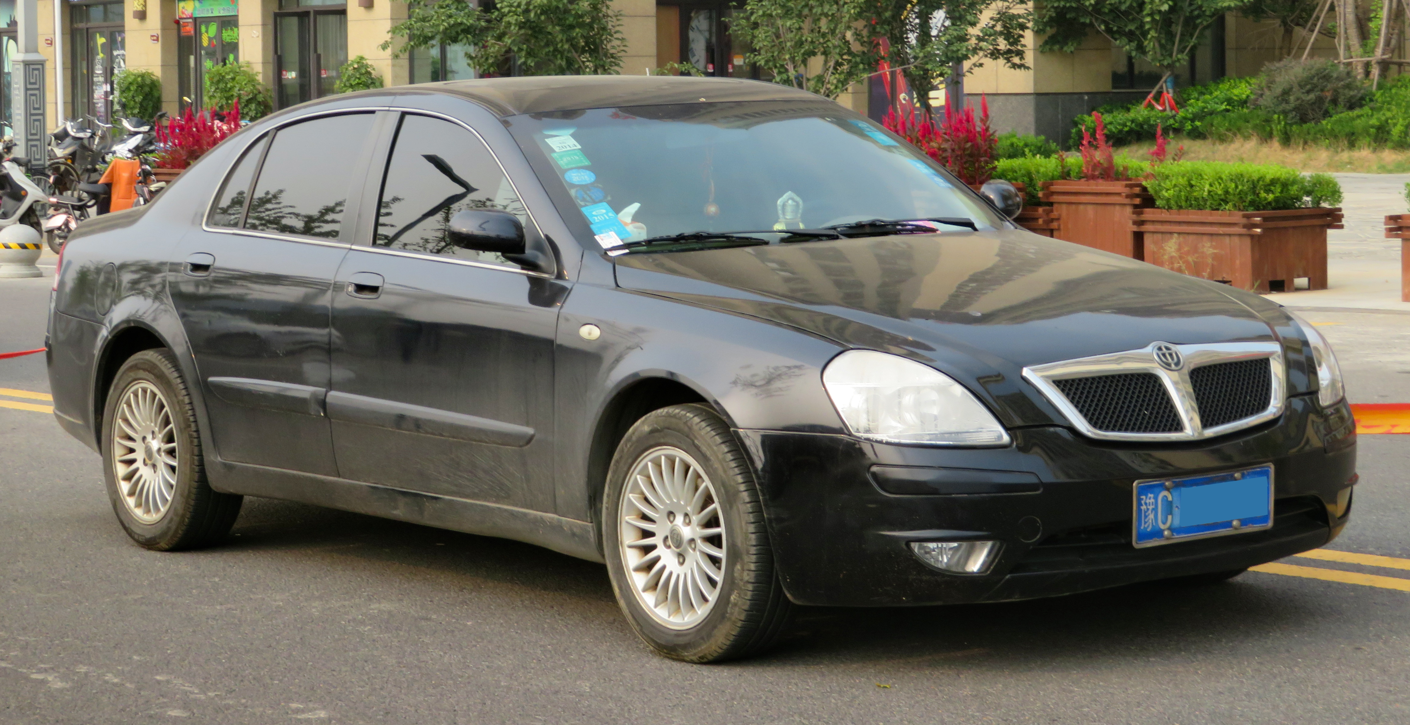 A 2008 Brilliance Zunchi facelift photographed in Luoyang, Henan province, China